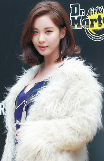 Seohyun during at Dr. Martens 2018 S/S Collection on January 4, 2018.